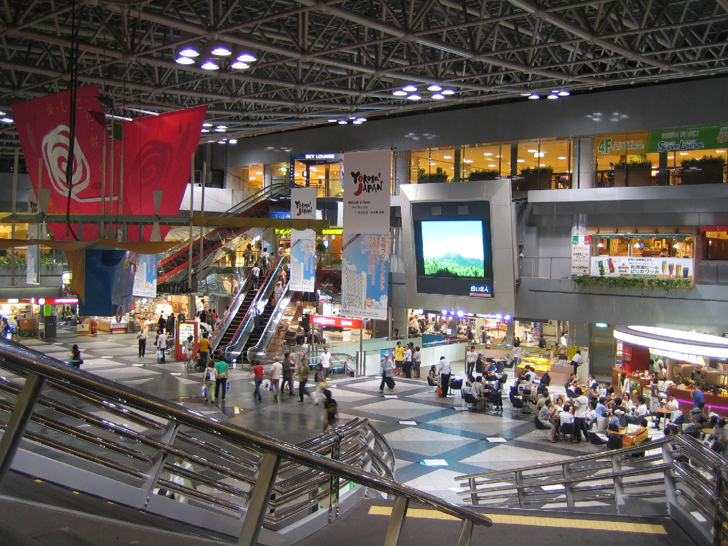 Shinchitose Airport Terminal Building.